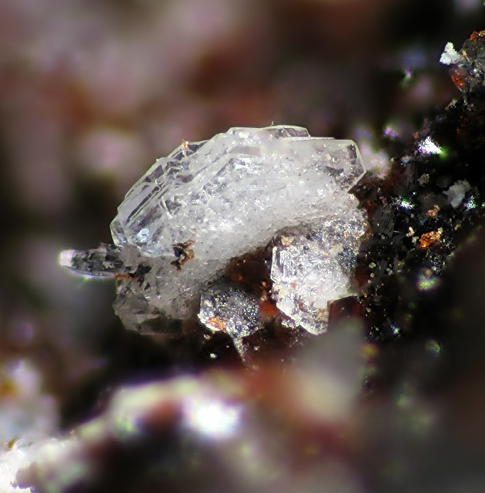 Colquiriite Locality: Serra Branca pegmatite, Pedra Lavrada, Borborema mineral province, Paraíba, Northeast Region, Brazil Picture width 2 mm. Collection and photograph Christian Rewitzer